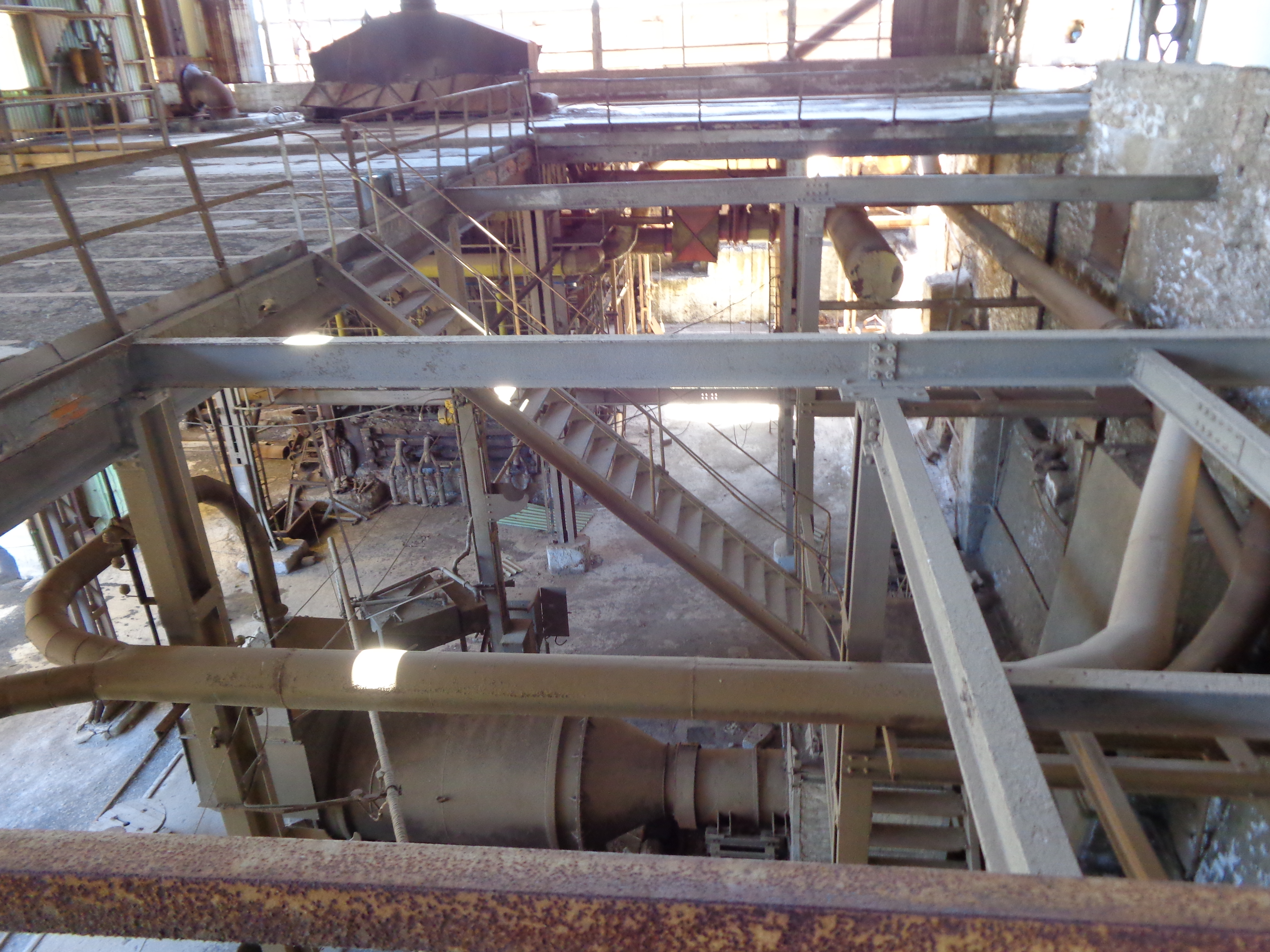 Lavrion Technological and Cultural Park (LTCP)